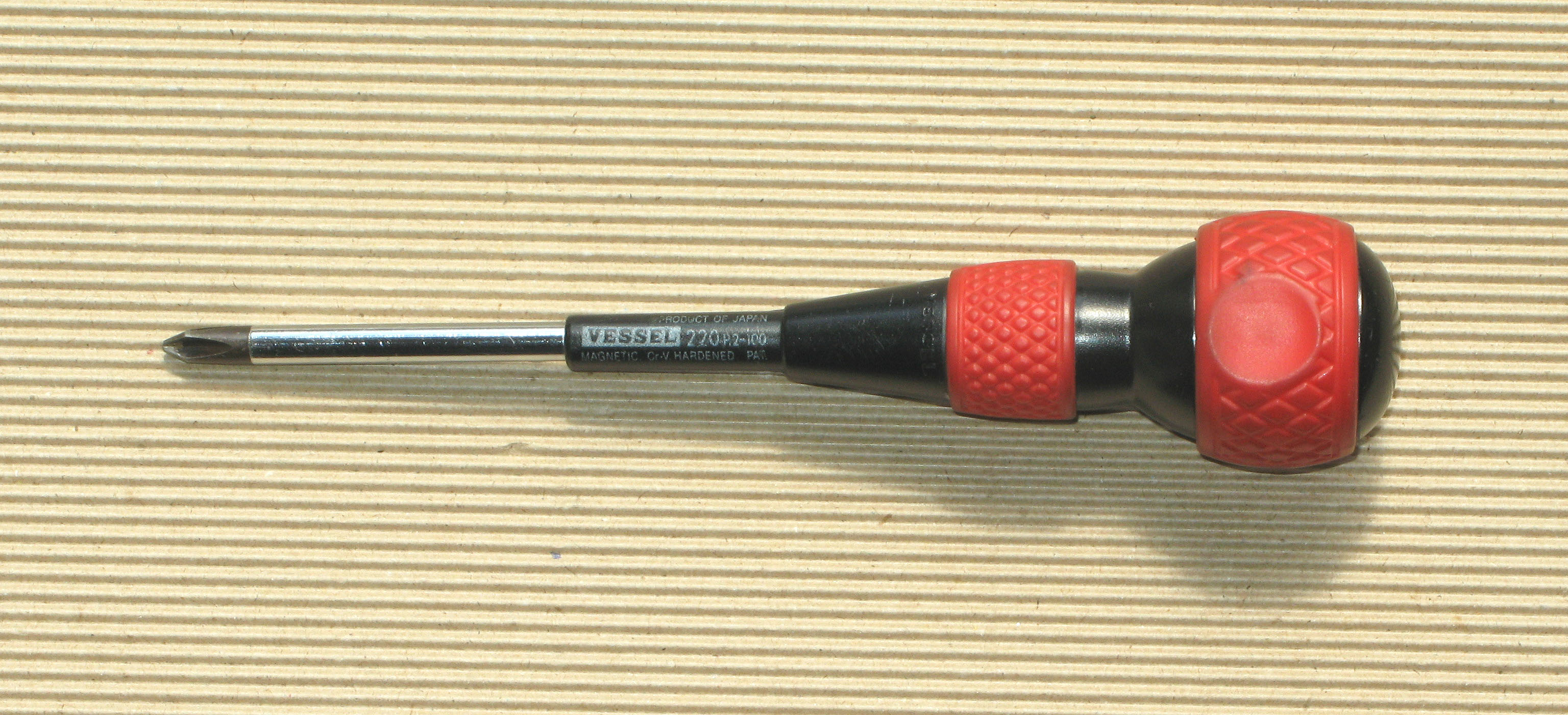 Screwdrivers VESSEL brand made in japan.